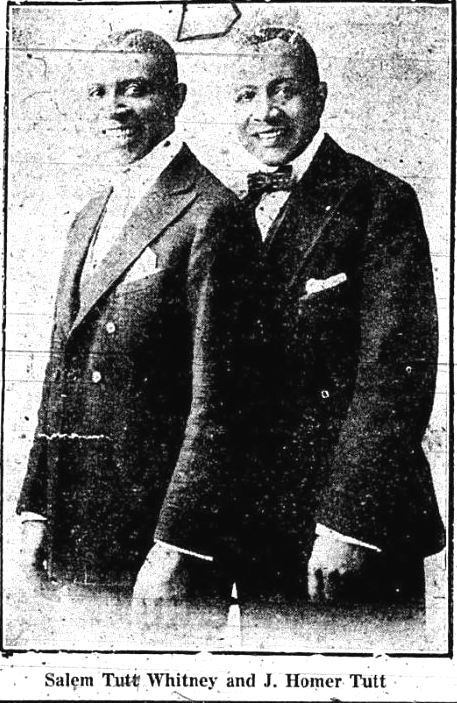 Salem Tutt Whitney and J. Homer Tutt, known collectively as the Tutt Brothers, from a newspaper advertisement for a vaudeville show on page 4 of the January 13, 1922 St. Louis Argus.